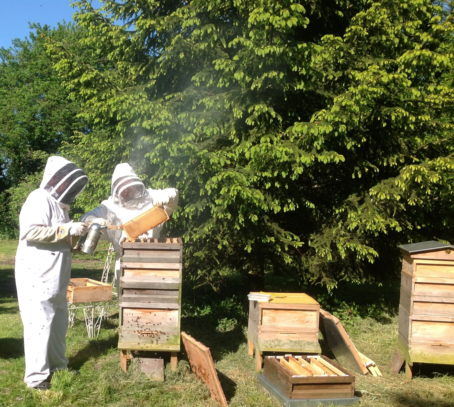 Primrose Cottage.